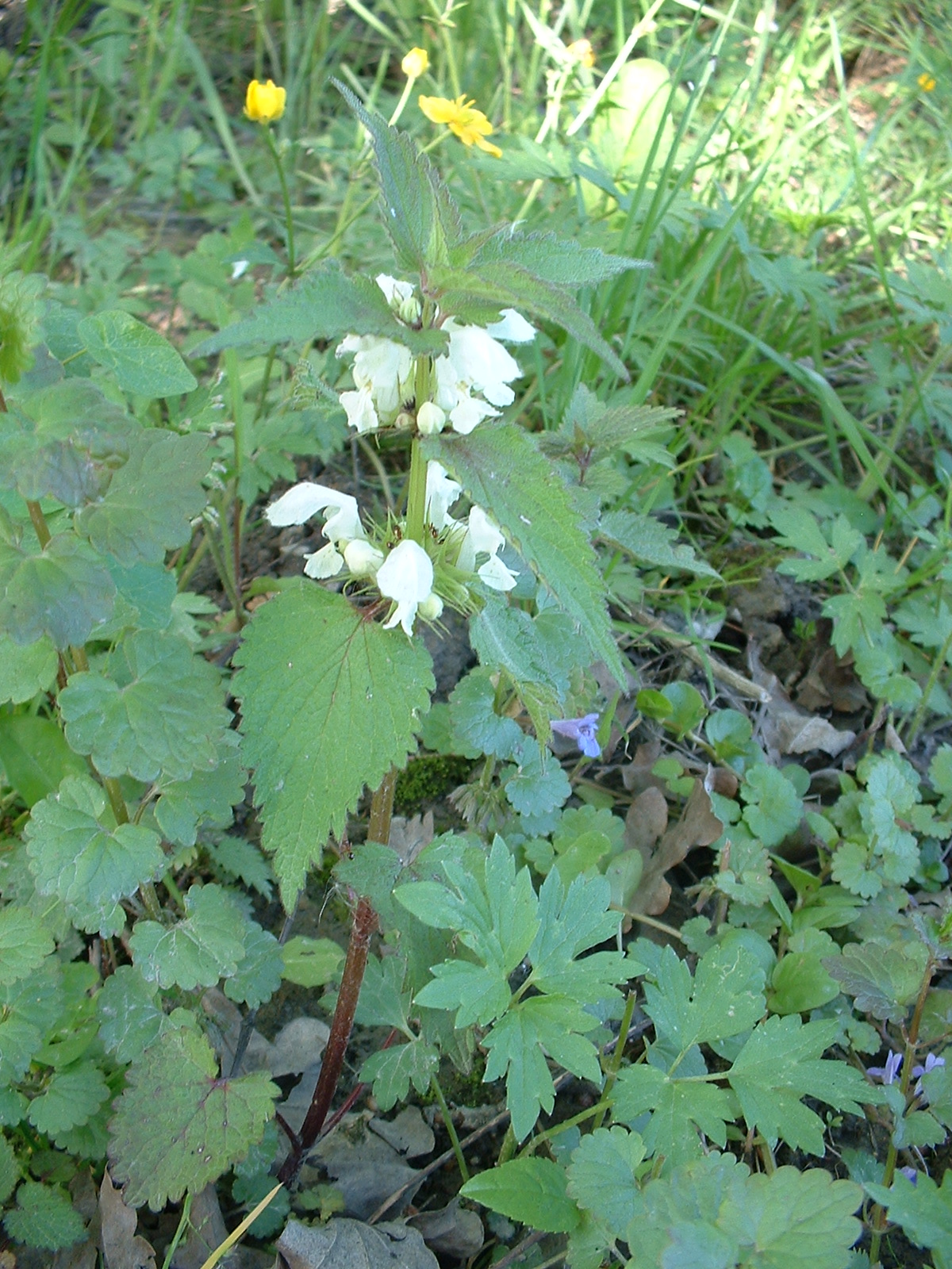 Lamium album - White Deadnettle